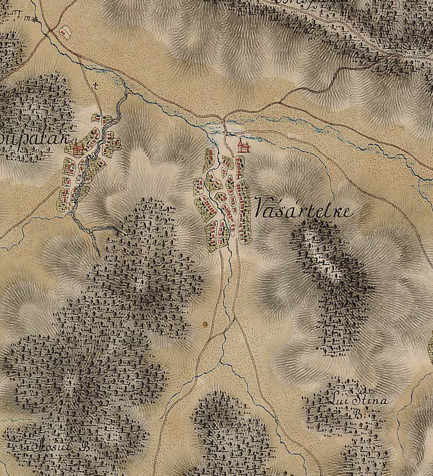 Stoboru on the Josephinische Landaufnahme